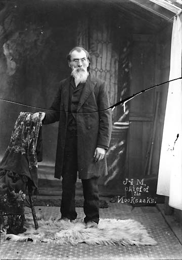 Chief Yelkanum Seclamatum of the Nooksack Indian Tribe.